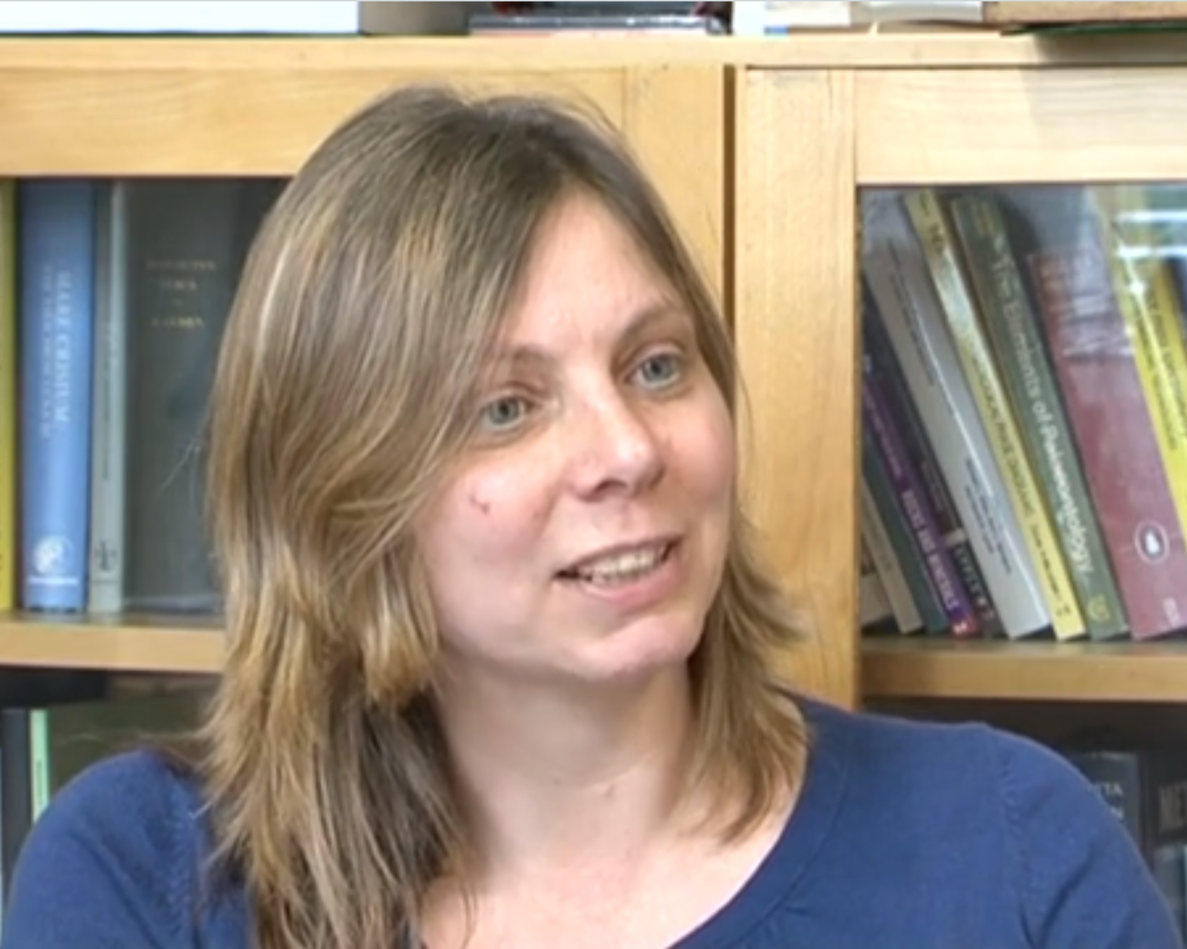 Sara Russell: The Moon Landings & Cosmic Mineralogy This interview clip is part of the following article (follow the DOI link at the end): Hawkins, S. 2012, Whose Story is it anyway? The Challenges of Conducting Institutional Histories. Journal of Conservation and Museum Studies, 10(1), The video is (c) Sue Hawkins, and released under the CC-By license.